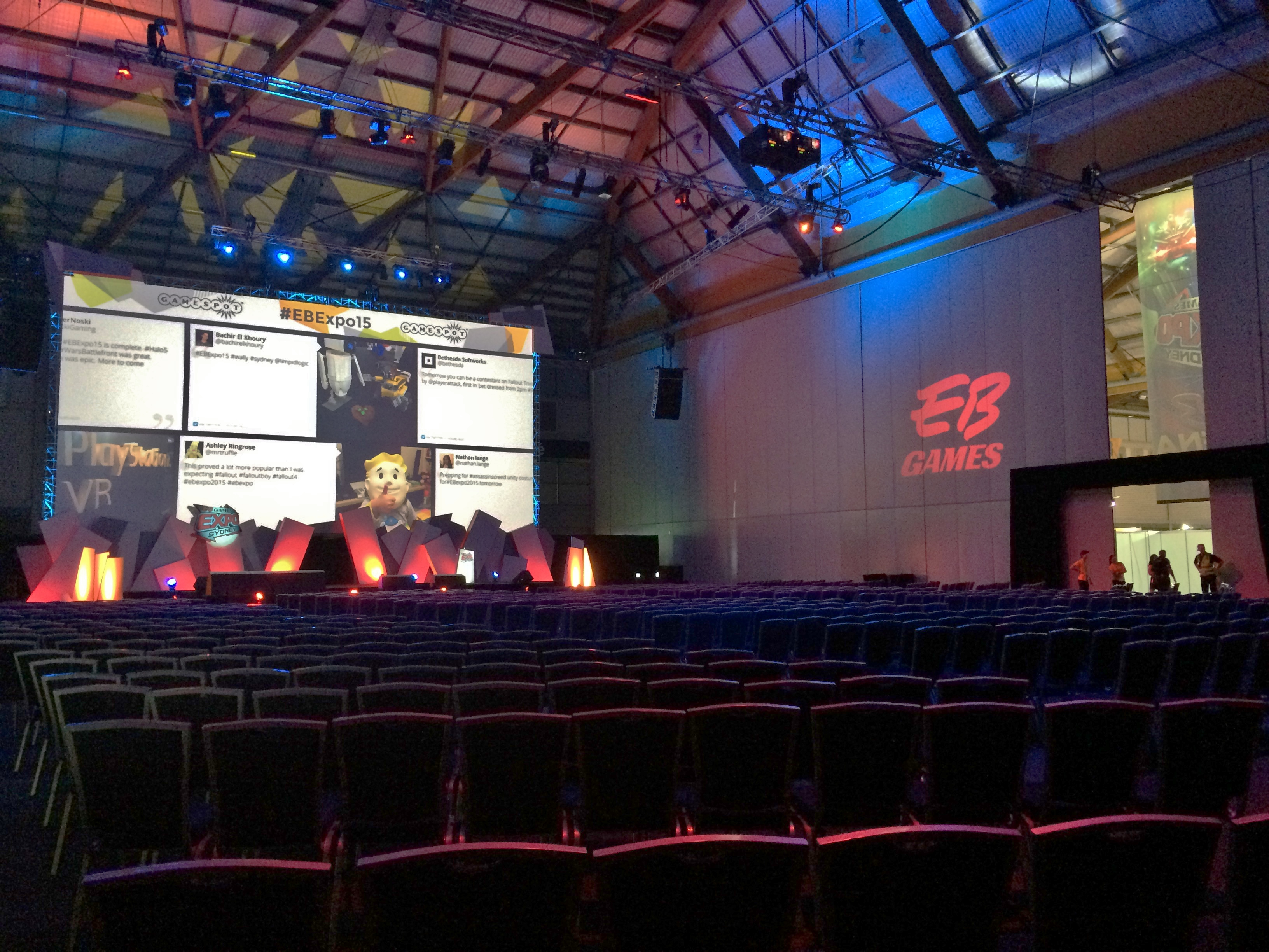 "The Arena" at the EB Games Expo 2015, which played host to various presentations and shows during the expo, is seen here during an intermission period before the start of the English-language premiere of Yo-Kai Watch.